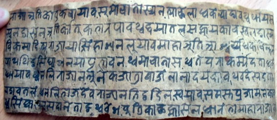 An ancient manuscript in the Eastern Nagari script.